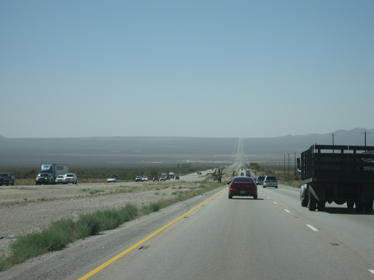 Interstate 15 in the Mojave Desert between Barstow, California, and Las Vegas, Nevada.